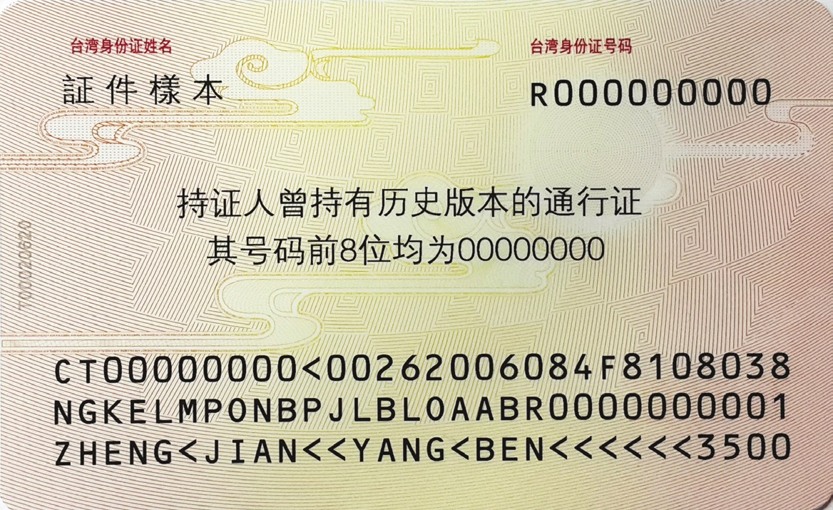 Mainland Travel Permit for Taiwan Residents issued from 2015